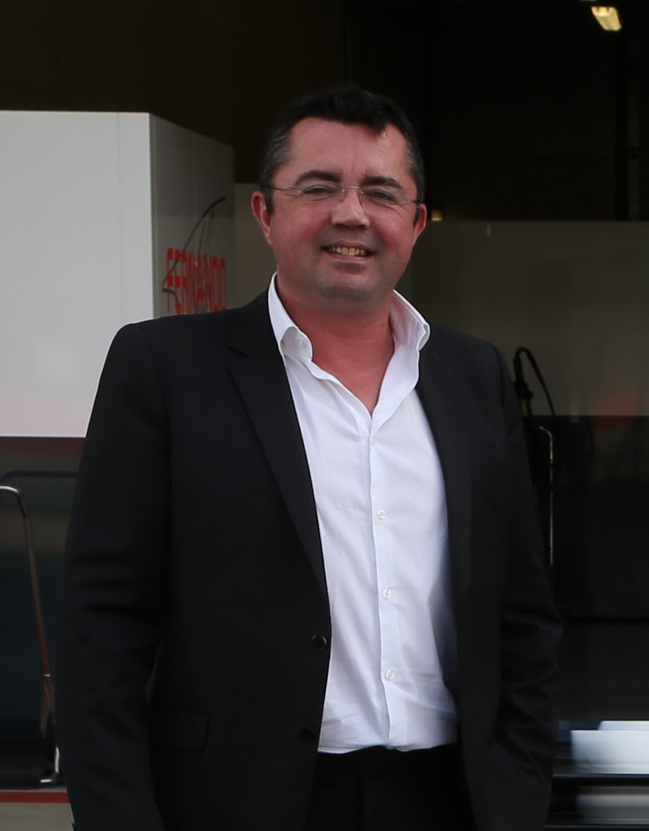 Éric Boullier in 2015, in the McLaren MP4-16A shakedown.